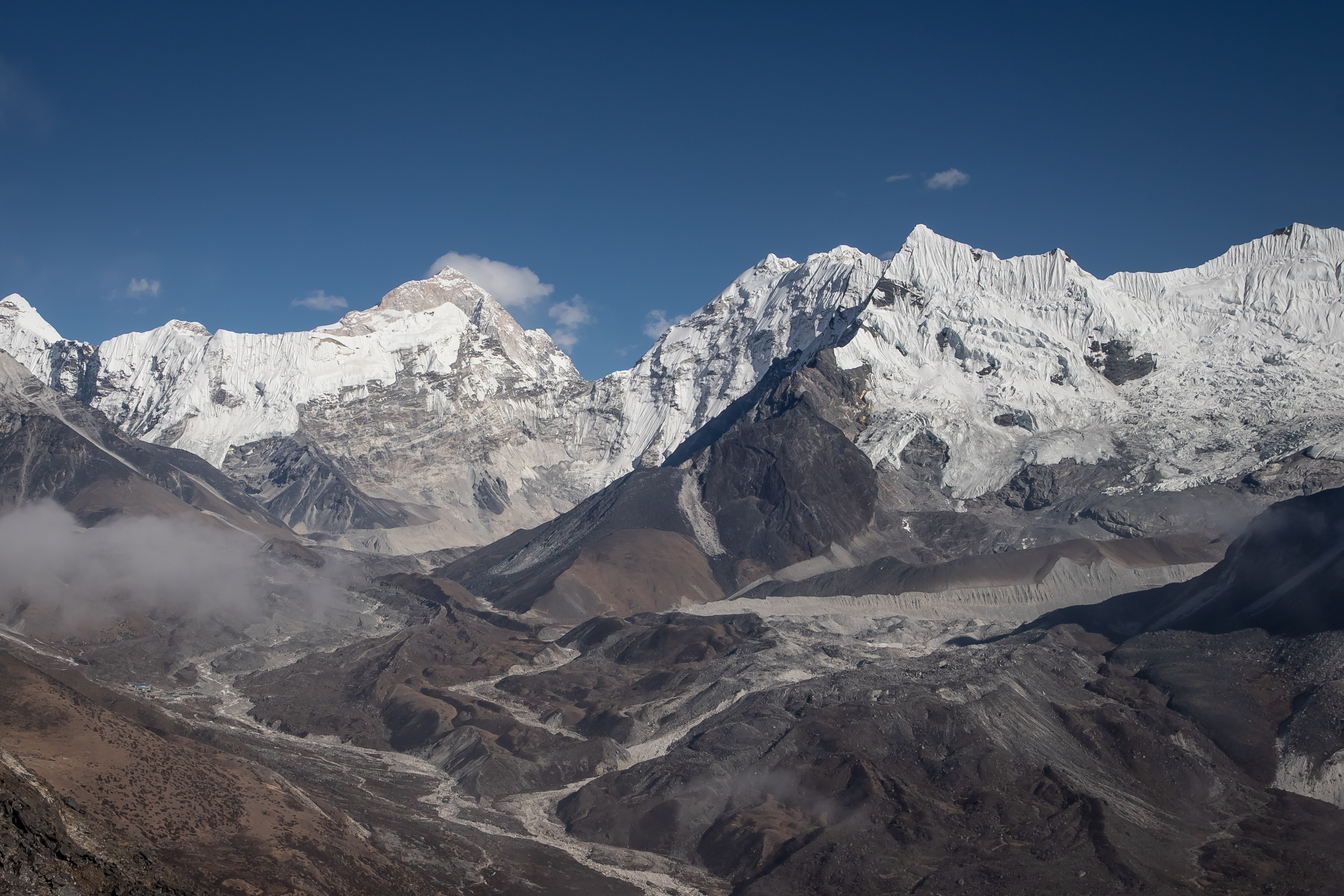 Glaciers forming the Imja Khola river, Baruntse mountain left of the centre.